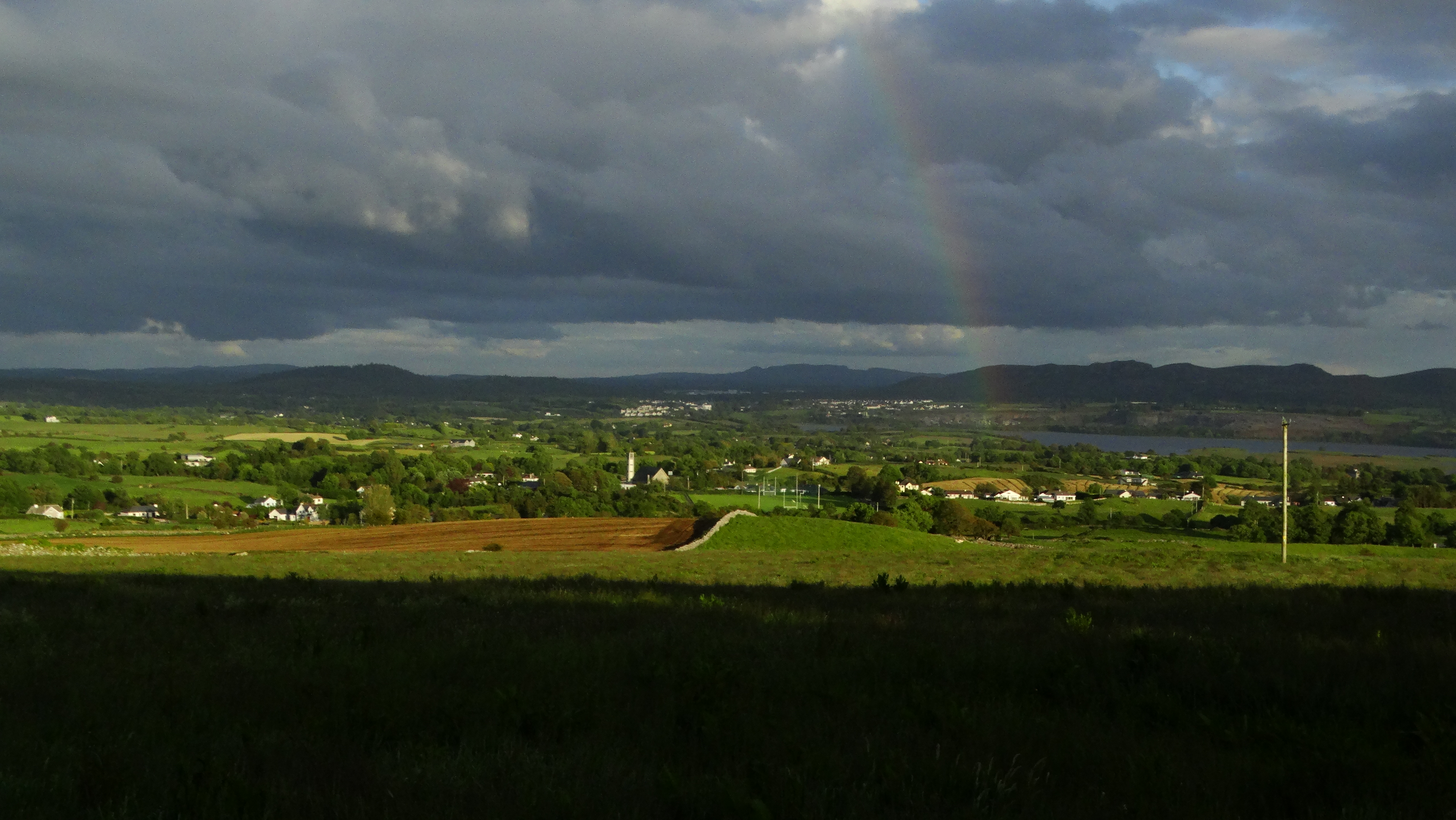 Evening light & rainbow over Knocknahur from Grange North, Co Sligo